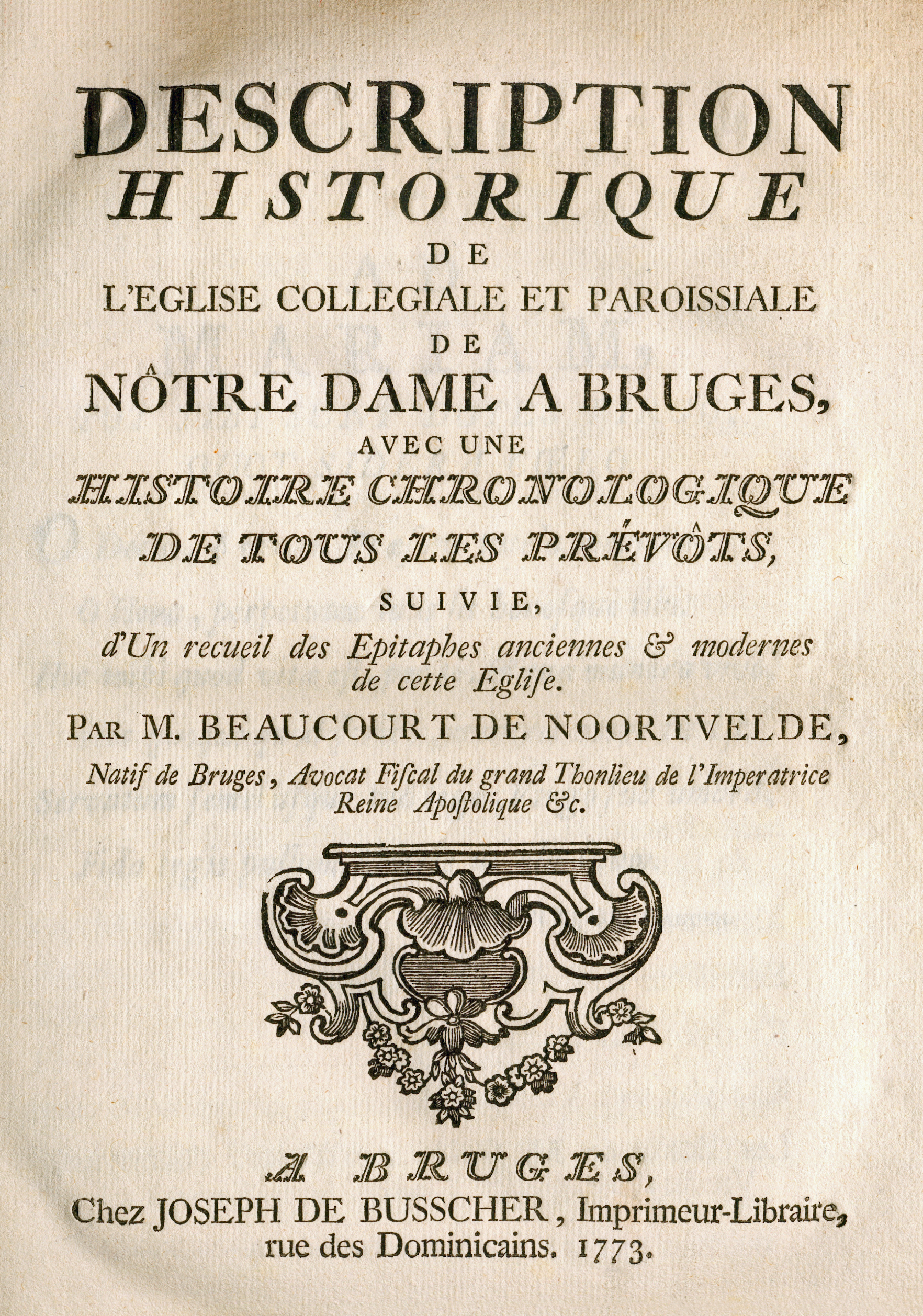 Patrice Beaucourt de Noortvelde, Description historique de l'église de Notre Dame à Bruges (Bruges, 1773): title page of the book